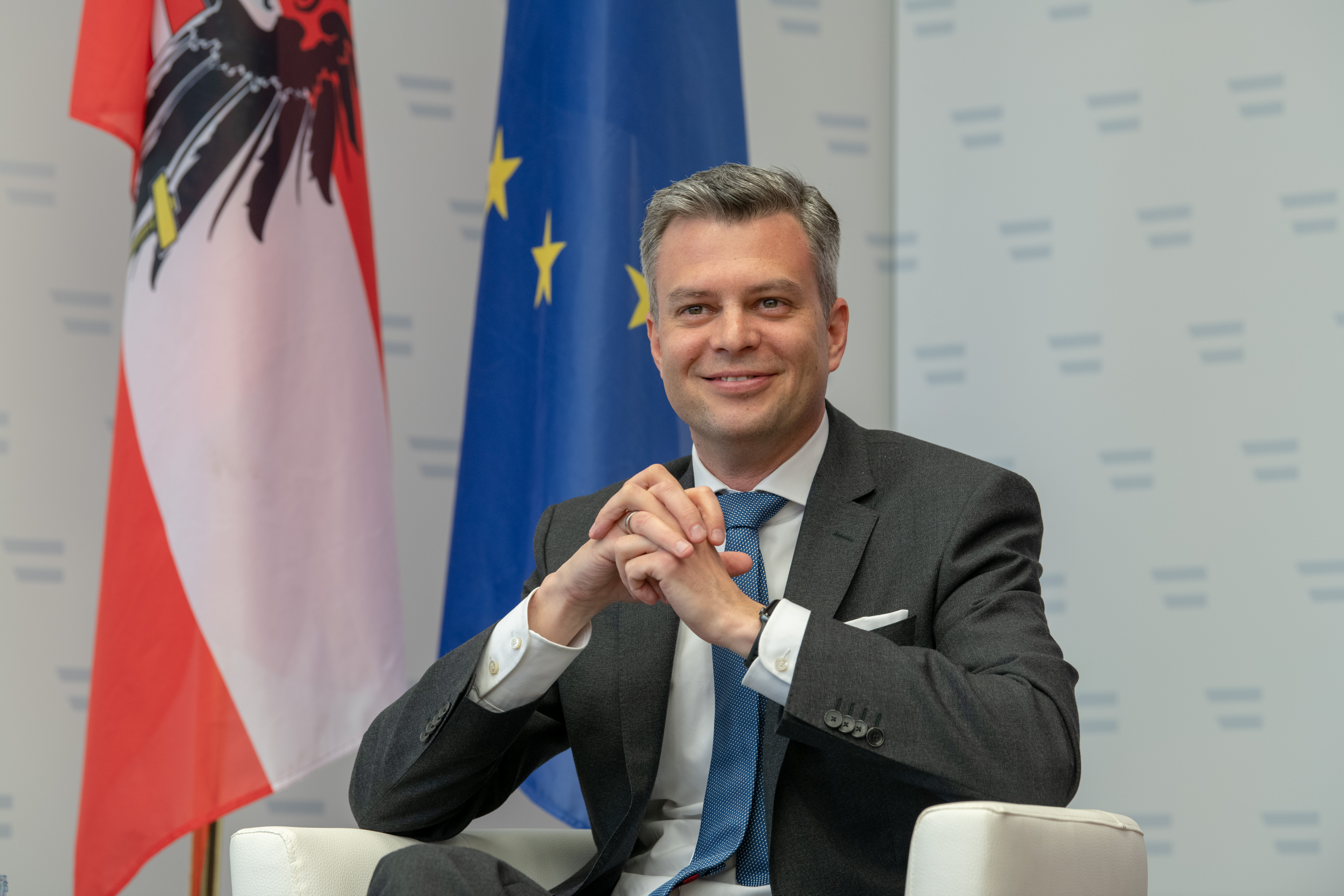 Fotocredit: BMF/Wilke